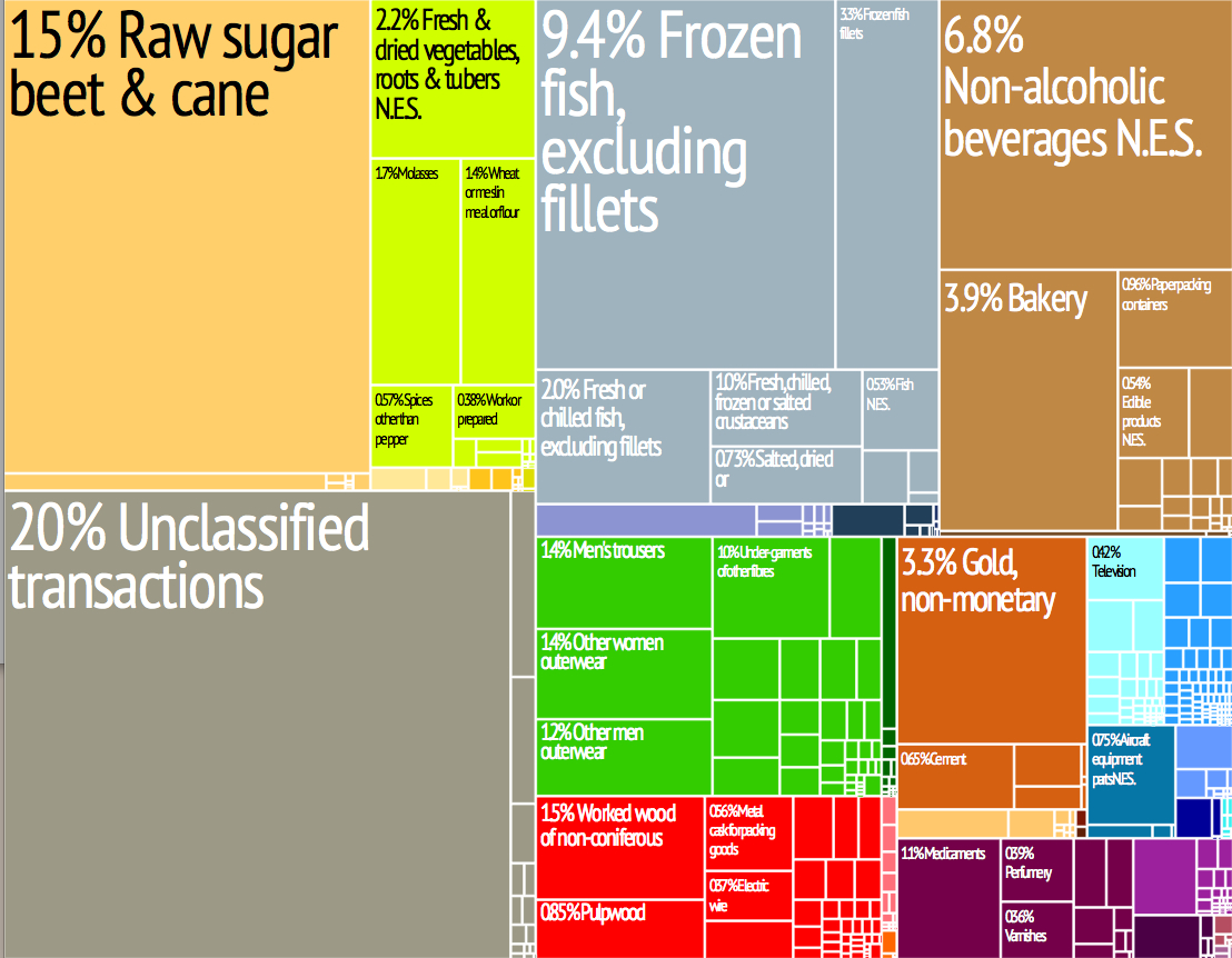 Export Trading Treemap. From MIT/Harvard Atlas of Economic Complexity